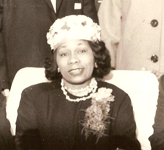 Louise Shropshire in Cincinnati, Ohio circa 1962 pictured during a fundraiser she held for Rev. Dr. Martin Luther King Jr.